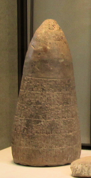 Cone of Enmetena, king of Lagash, Room 236 Reference AO 3004, Louvre Museum